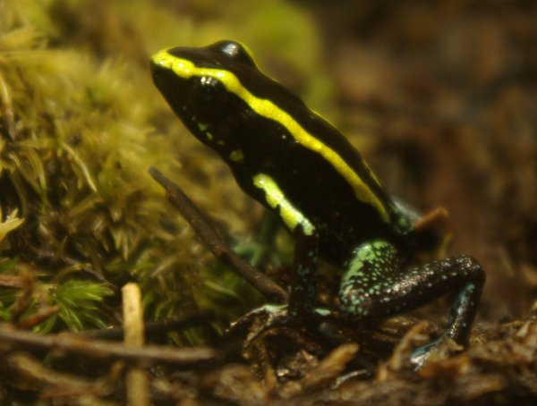 Kokoe Poison Dart Frog (Phyllobates aurotaenia), 2008 frog exhibit at National Geographic Museum, Washington, DC